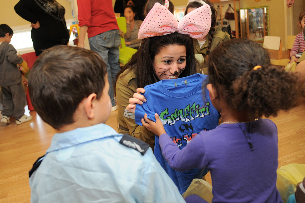 March 8, 2012 This last Purim, Soldiers from the Technological and Logistical Branch visited at-risk children in a day care at Or Yehuda. The soldiers helped the children design their Purim costumes, put on make-up and handed out gifts. The Israel Defense Forces Facebook The Israel Defense Forces blog Follow us on Twitter